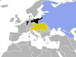 Map of Europe, highlighting the Holy Alliance of 1815